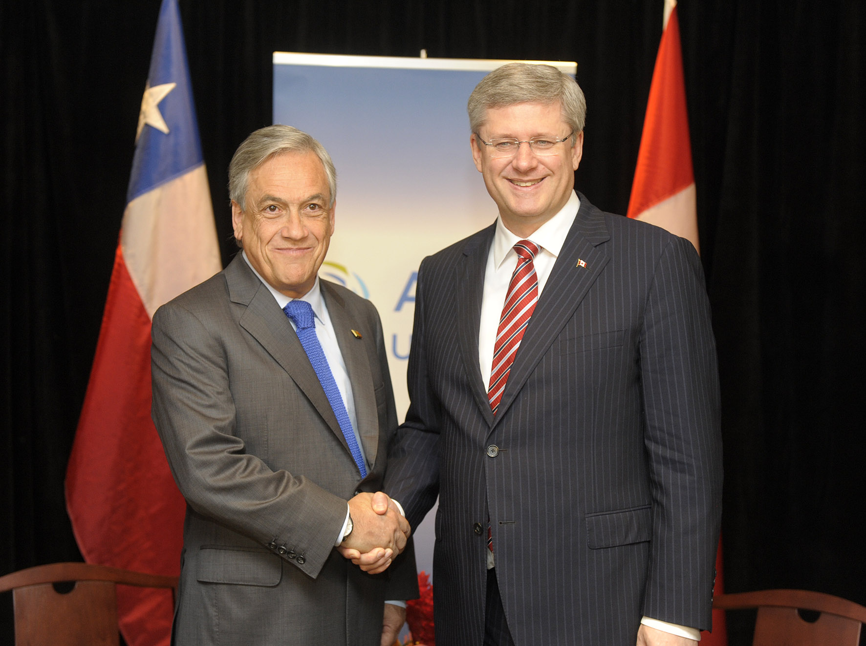 Sebastián Piñera and Stephen Harper.